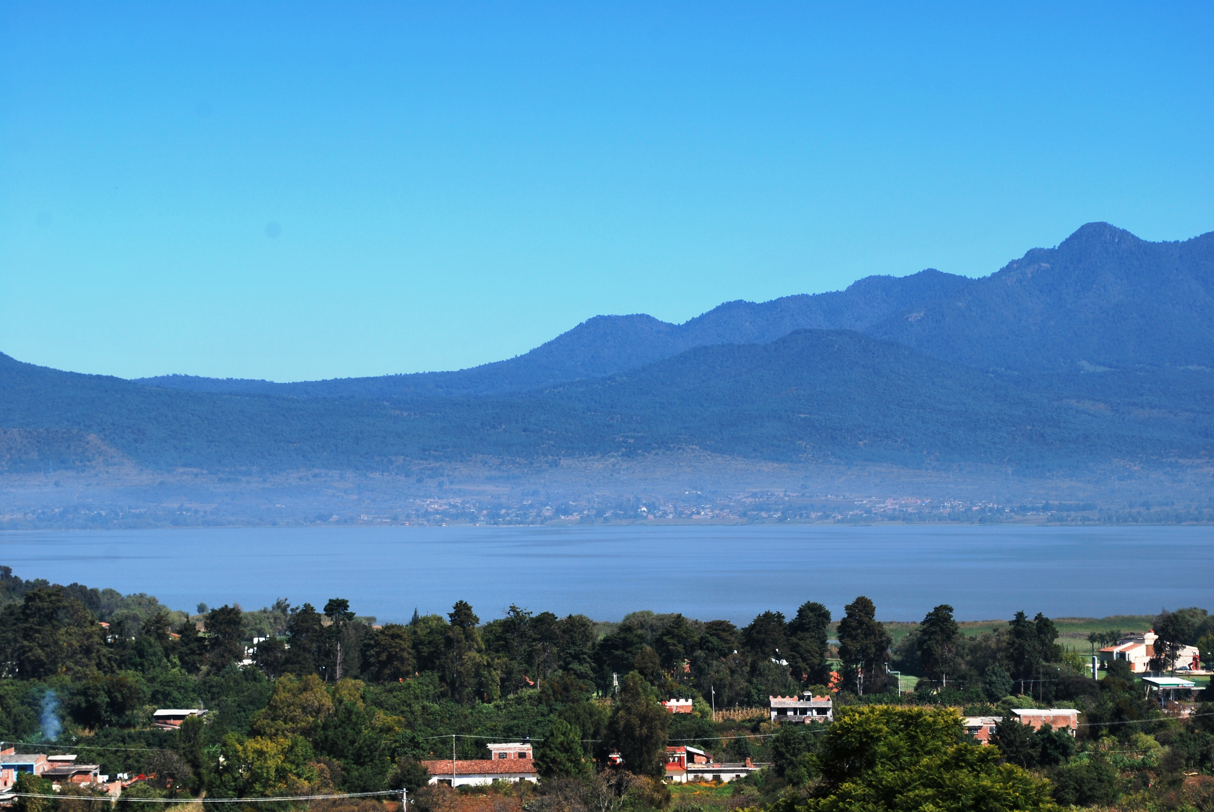 View of Lake Patzcuaro from the Tzintzuntzan archeological site